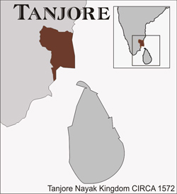 This file was created by me, and I have no issues in providing this content to Wikipedia. Thanks.